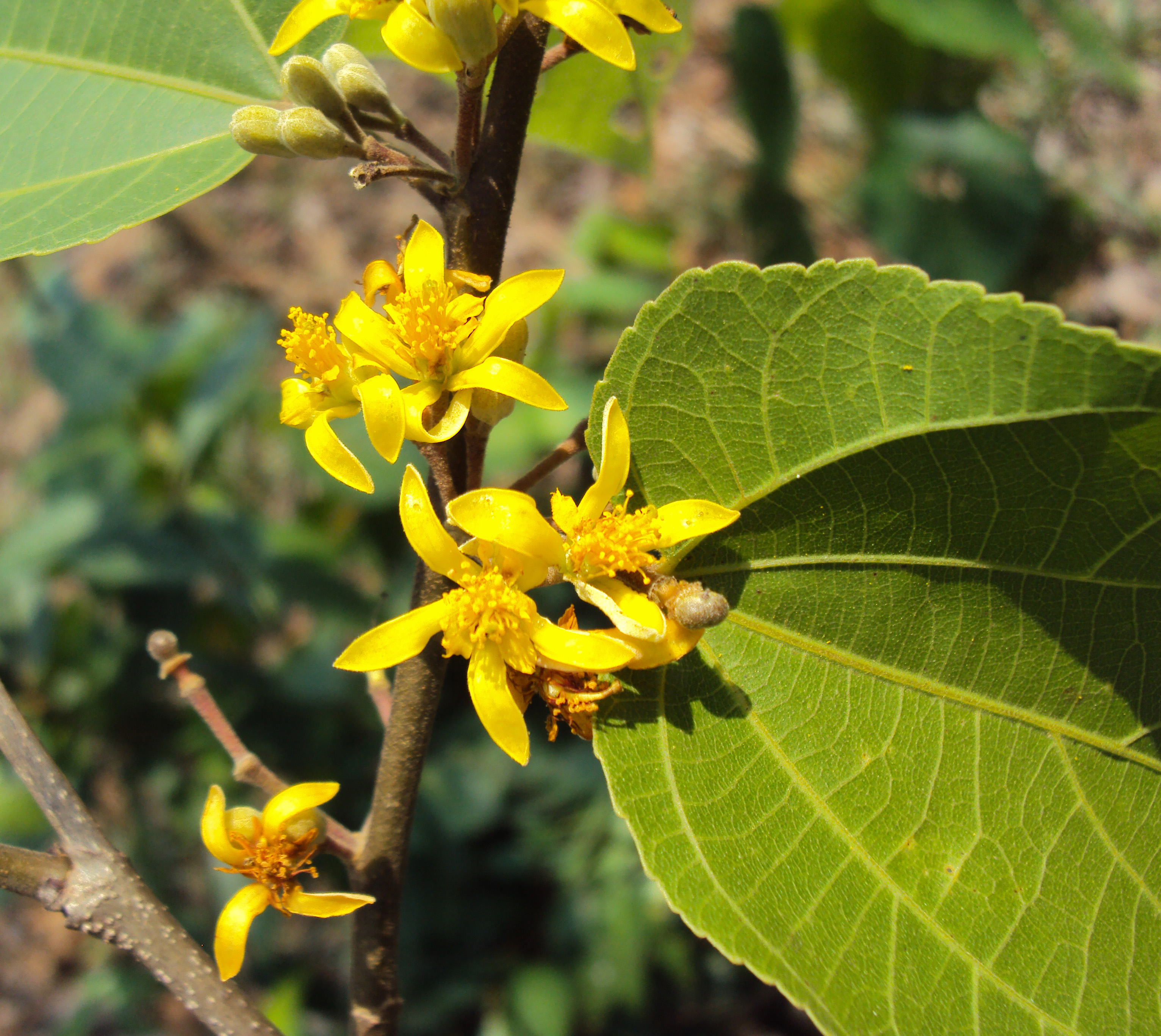 Grewia tiliifolia